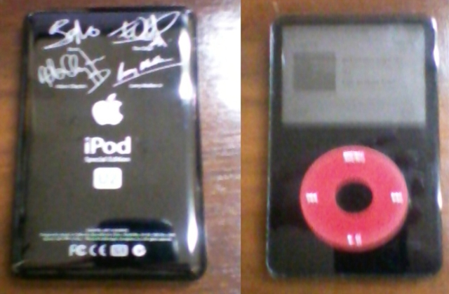 iPod U2. I took this picture of my own iPod U2 Special Edition to use with the only purpose to add it to both articles U2 and iPod